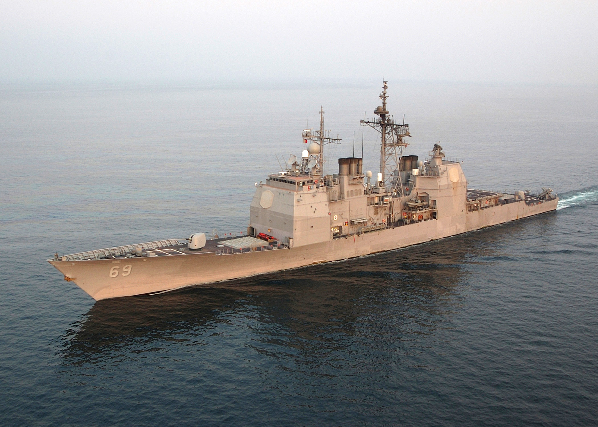 041110-N-4374S-008 Arabian Gulf (Nov. 10, 2004) - The guided missile cruiser USS Vicksburg (CG 69) sails through the Arabian Gulf during sunrise. Vicksburg is part of the USS John F. Kennedy (CV 67) Carrier Strike Group, currently on a scheduled deployment in support of Operation Iraqi Freedom (OIF). U.S. Navy photo by Photographer’s Mate 2nd Class Michael Sandberg (RELEASED)